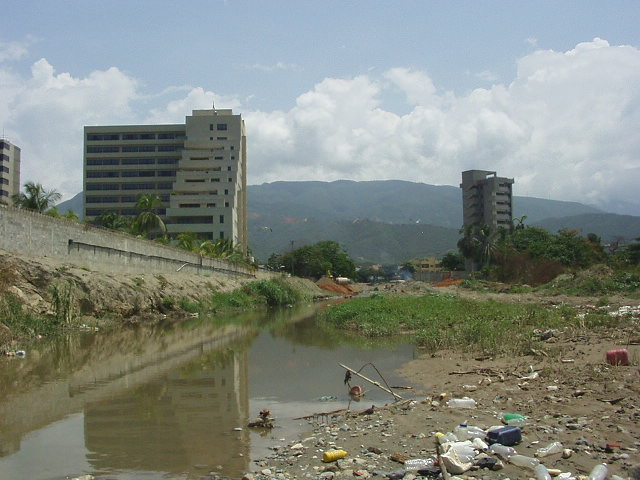 Tagagua River near its mouth. Catia La Mar, Vargas Municipality, Vargas State, Venezuela. The white building is a hotel "Best Western Puerto Viejo Airport Inn".